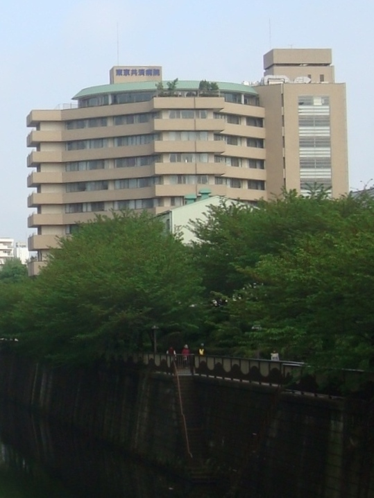 Tokyo Kyosai Hospital on Meguro River, Tokyo